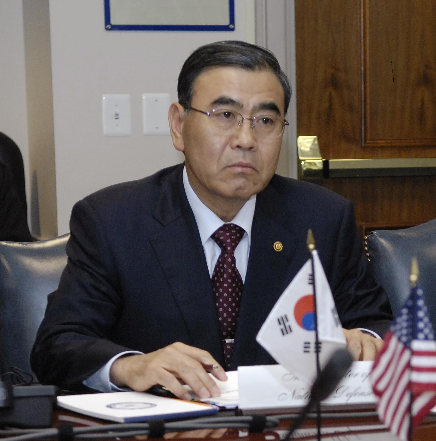 Republic of Korea Minister of National Defense Lee Sang-Hee listens to a translation during a meeting to discuss bilateral issues with Secretary of Defense Robert M. Gates in the Pentagon Oct. 17, 2008.